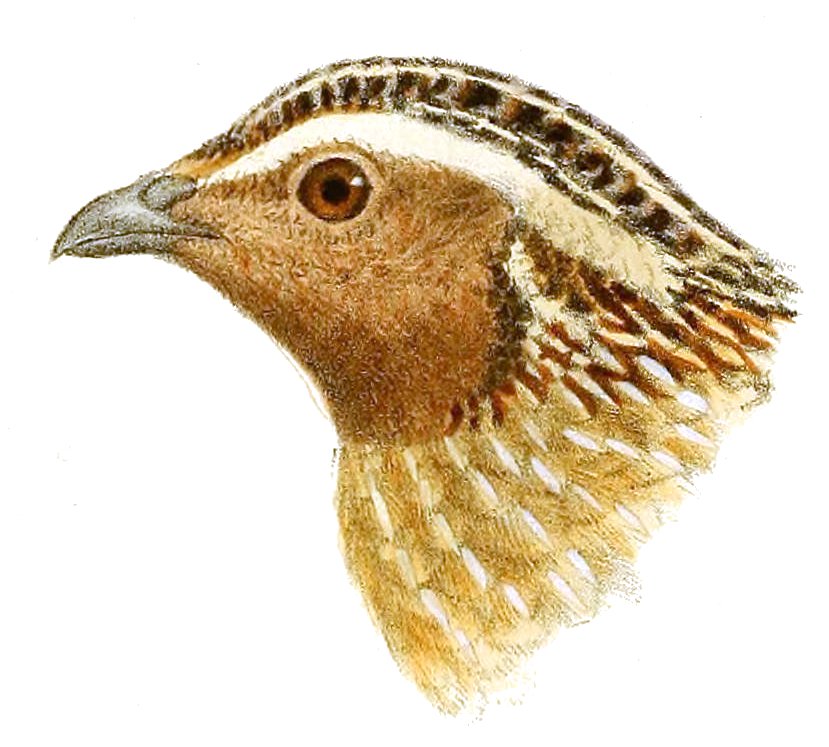 Drawing of head of Corturnix japonica.